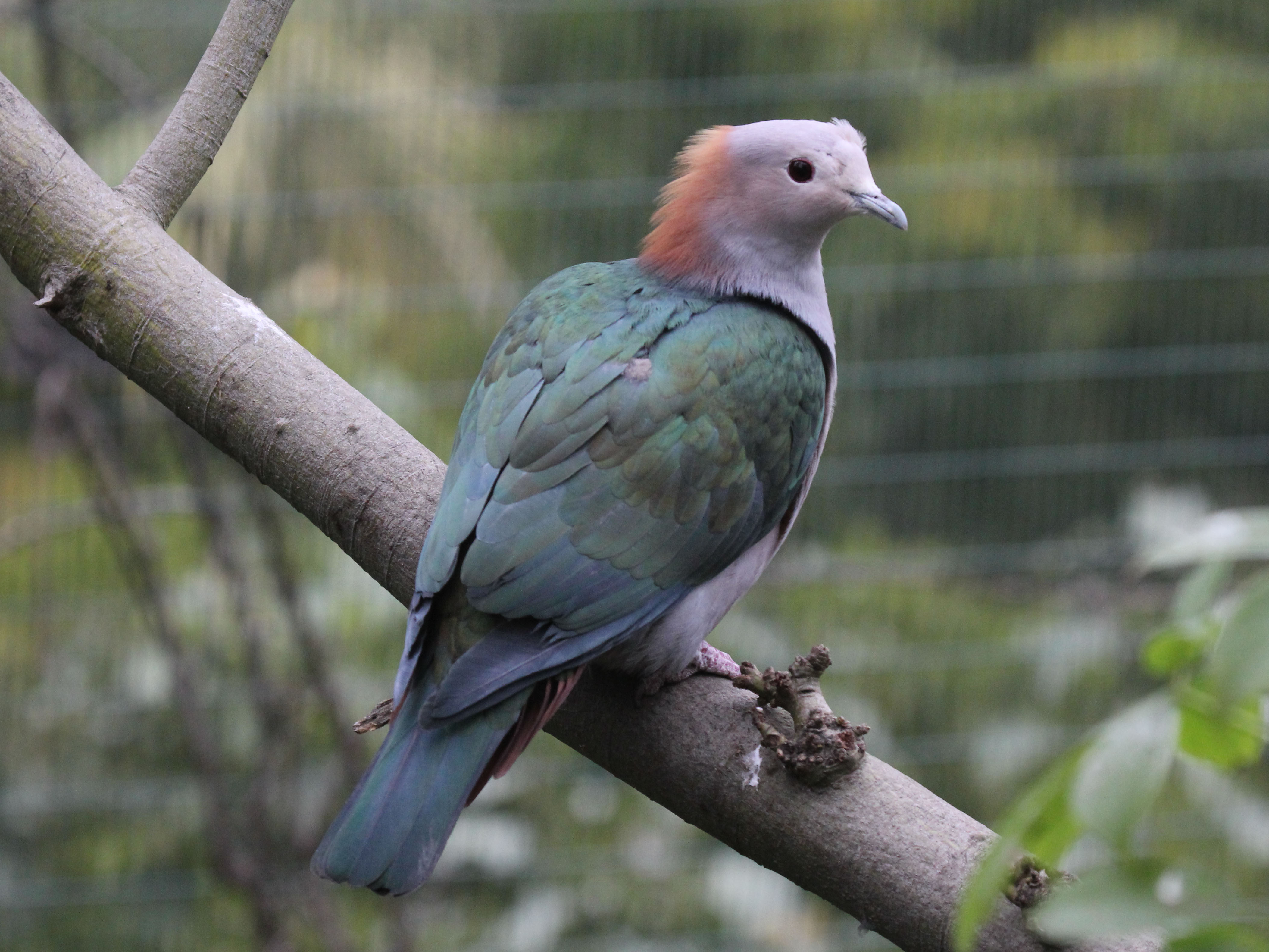 Green Imperial Pigeon (Ducula aenea)) - San Diego Zoo